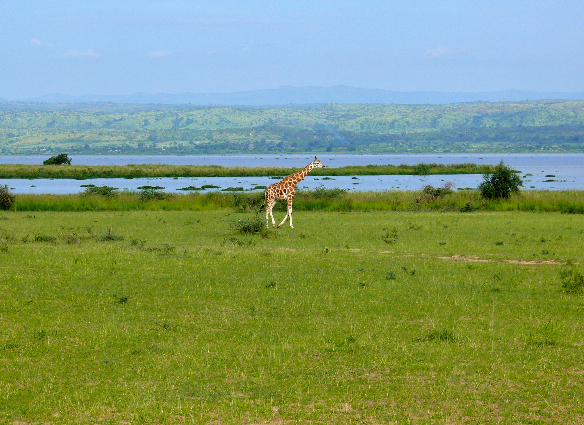 Murchison's Falls NP, UGANDA